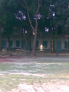 Bhangbaria High School in Alamdanga Upazila, Bangladesh